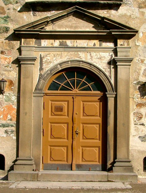 Portal at Our Lady's church, Trondheim, Norway